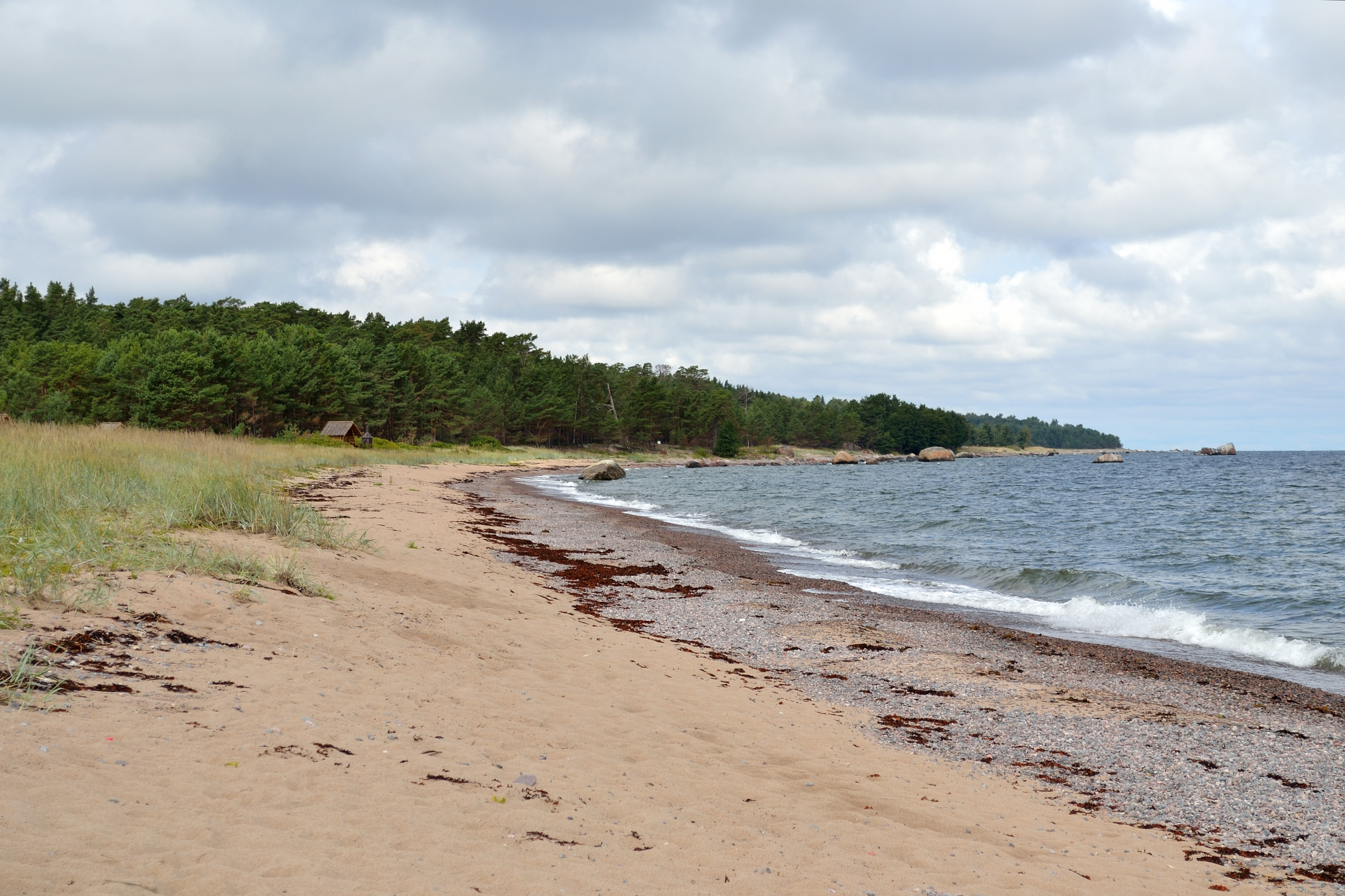 Beach on eastern part of island Naissaar